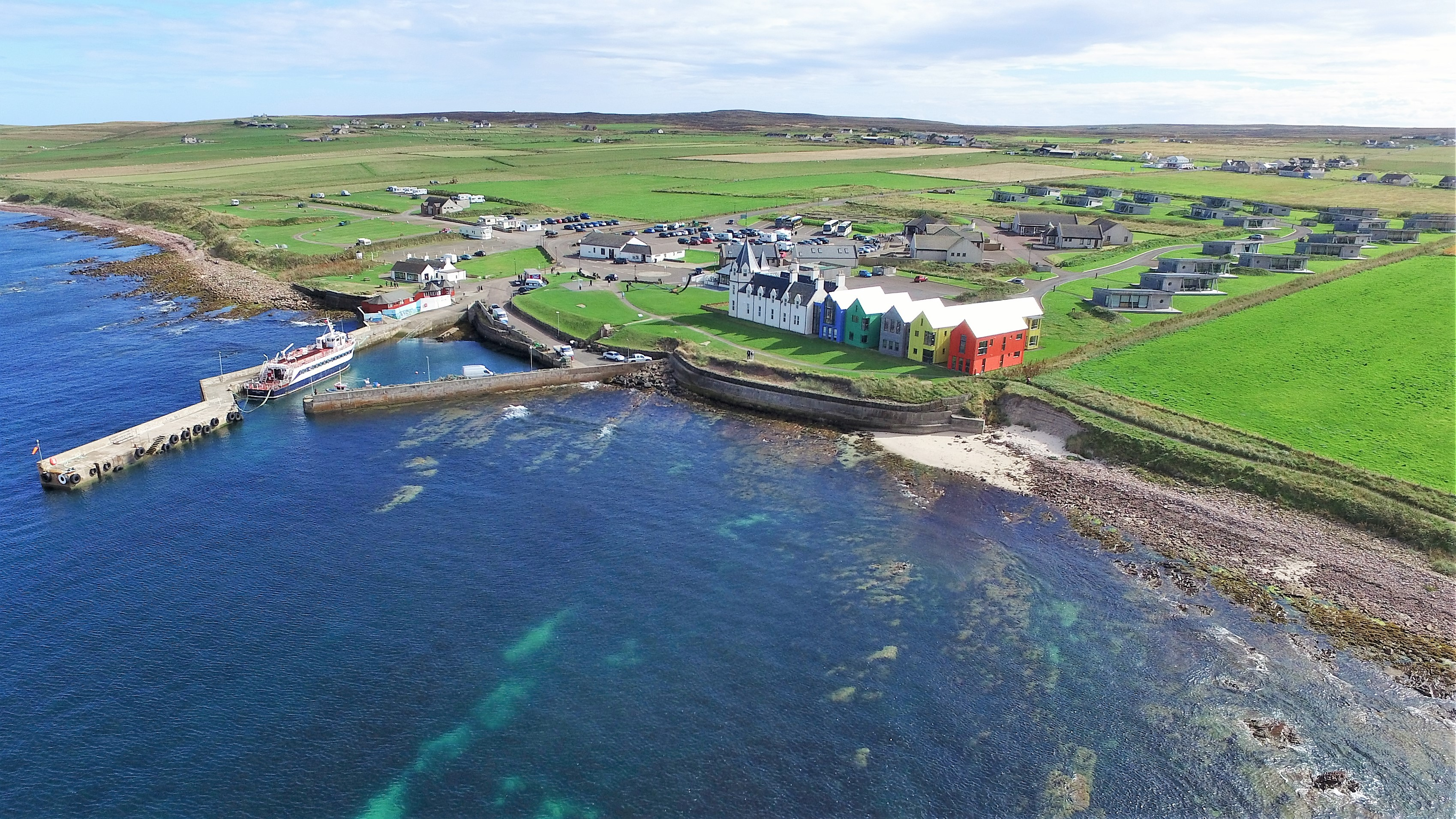 John O'Groats from the air. Shot with a DJI Inspire 1 September 2016